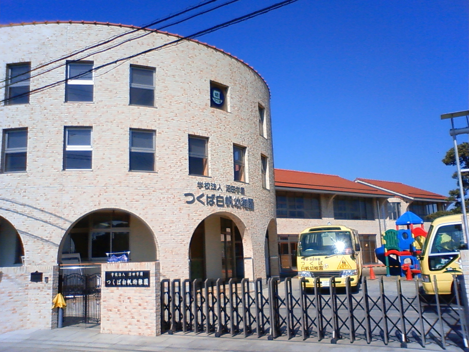 This is a kindergarten in Tsukuba, Ibaraki, Japan.